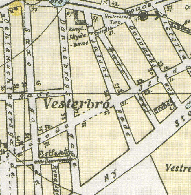 Map detail from 1886 showing the two halves of Istedgade which has not yet been connected as a result of the Royal Copenhagen Shooting Socitty's shooting range at present-day Skydebanegade in Copenhagen, Denmark.